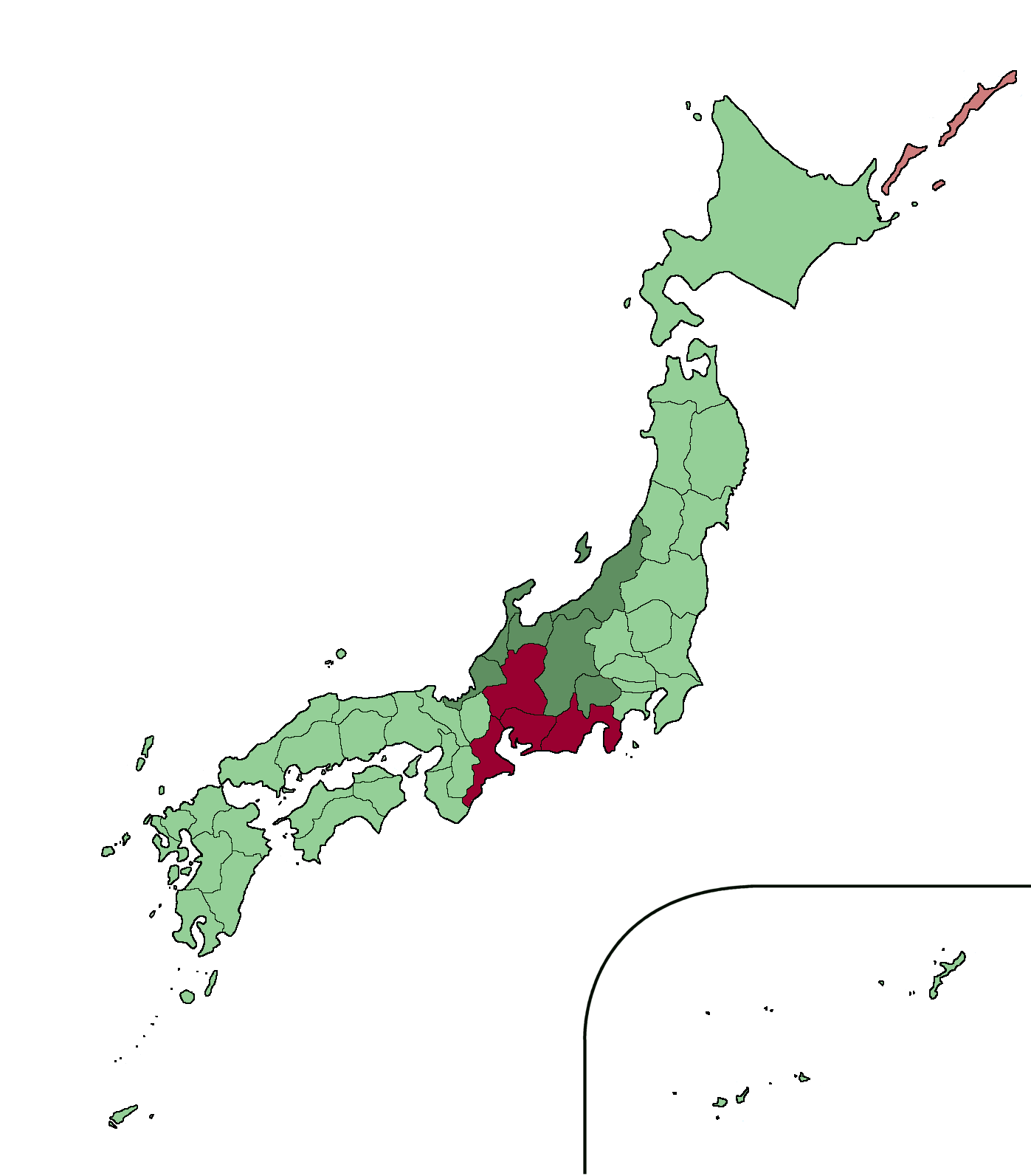 Map of Tokai region in Chubu Japan